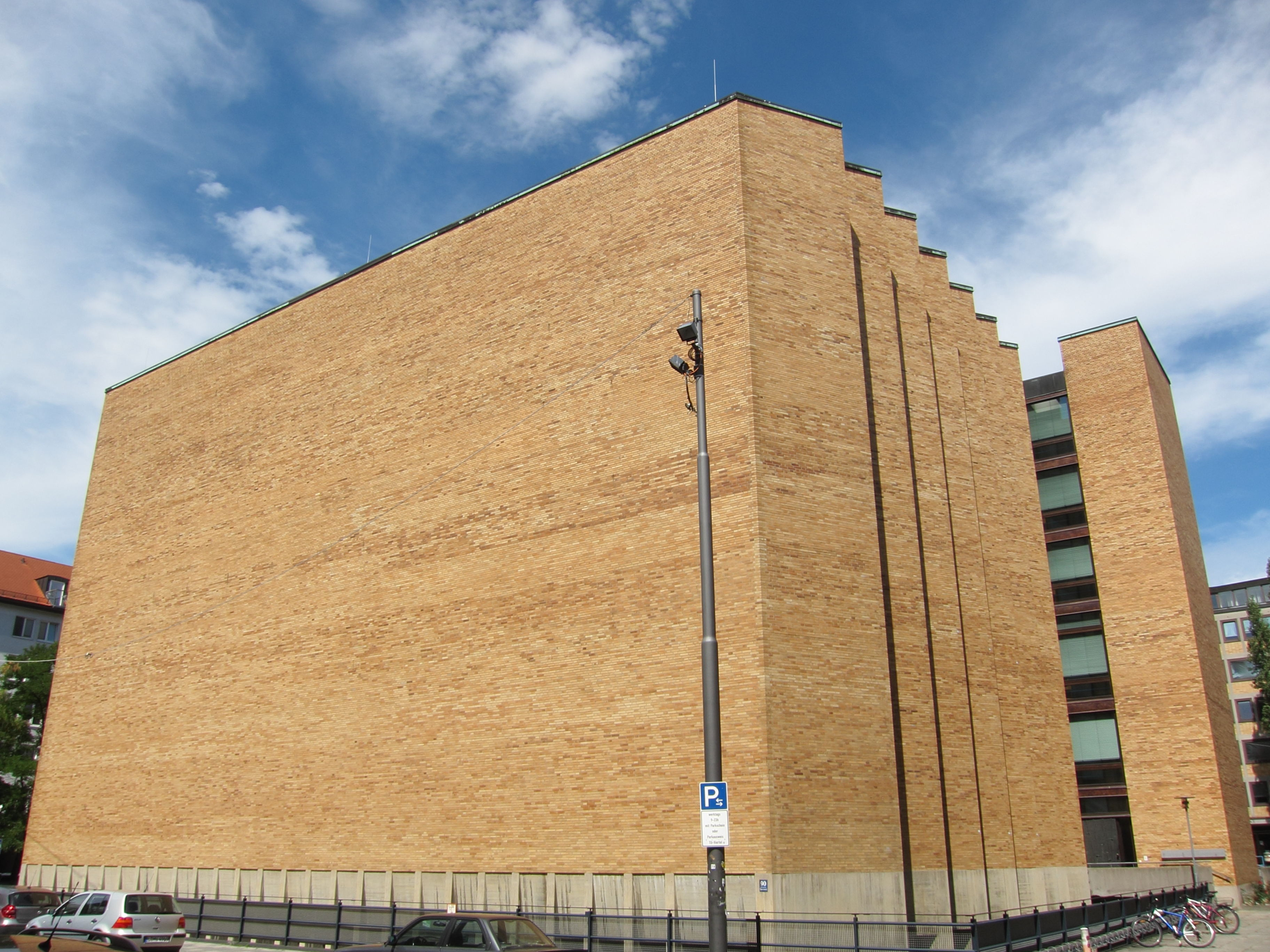 Technical University Munich, High Voltage Building (Building N2), 1957-63 by Werner Eichberg and Franz Hart